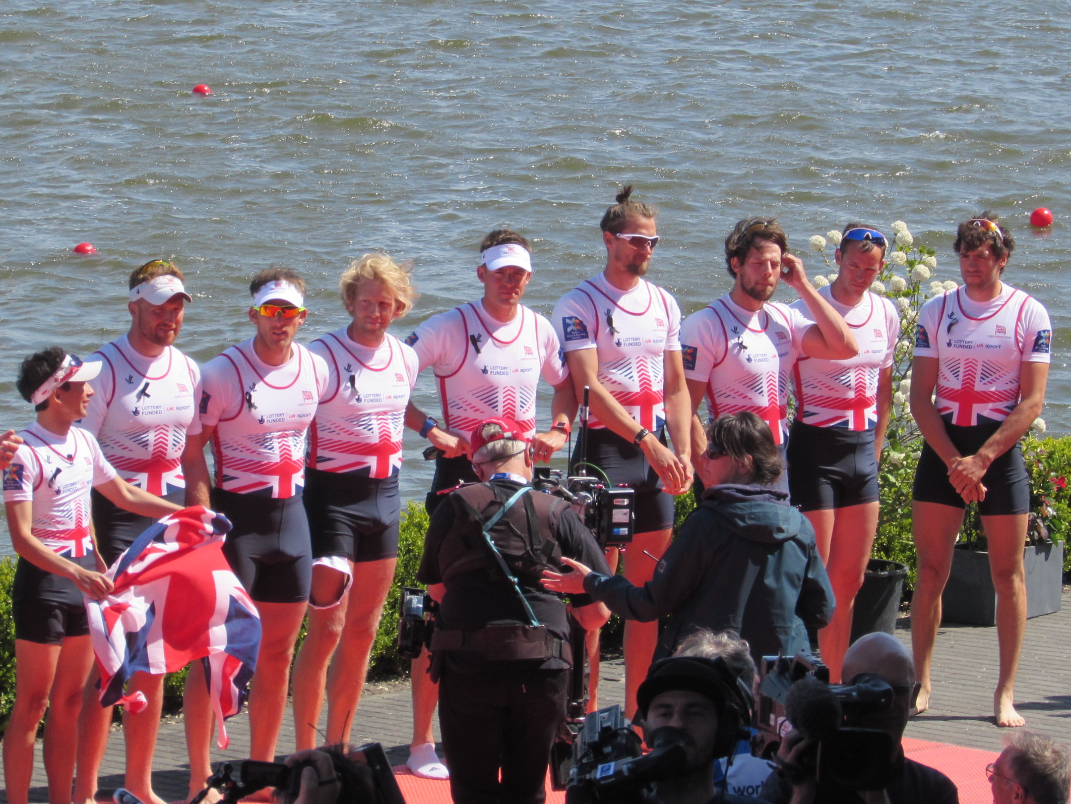 Left to right: Phelan Hill, William Satch, Matt Langridge, Andrew Triggs Hodge, Peter Reed, Paul Bennett, Tom Ransley, Scott Durant, Matthew Gotrel